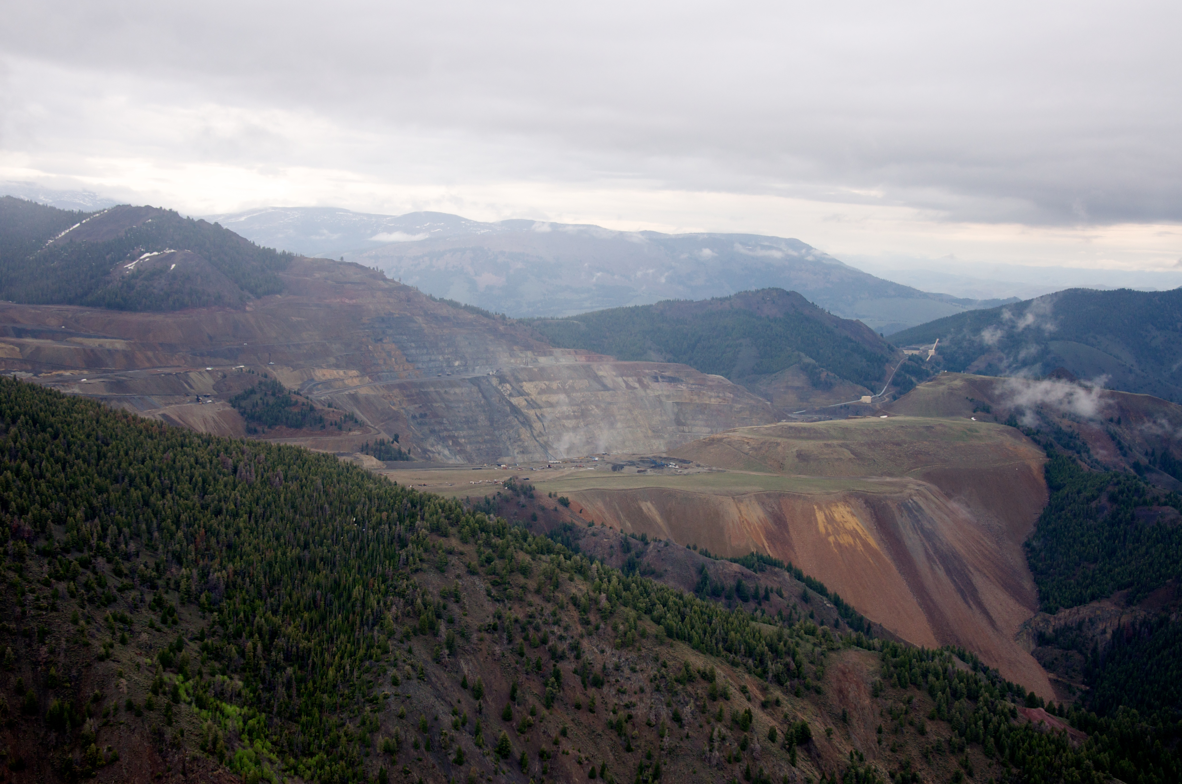 Aerial photograph of Thompson Creek Mine in Salmon-Challis National Forest.